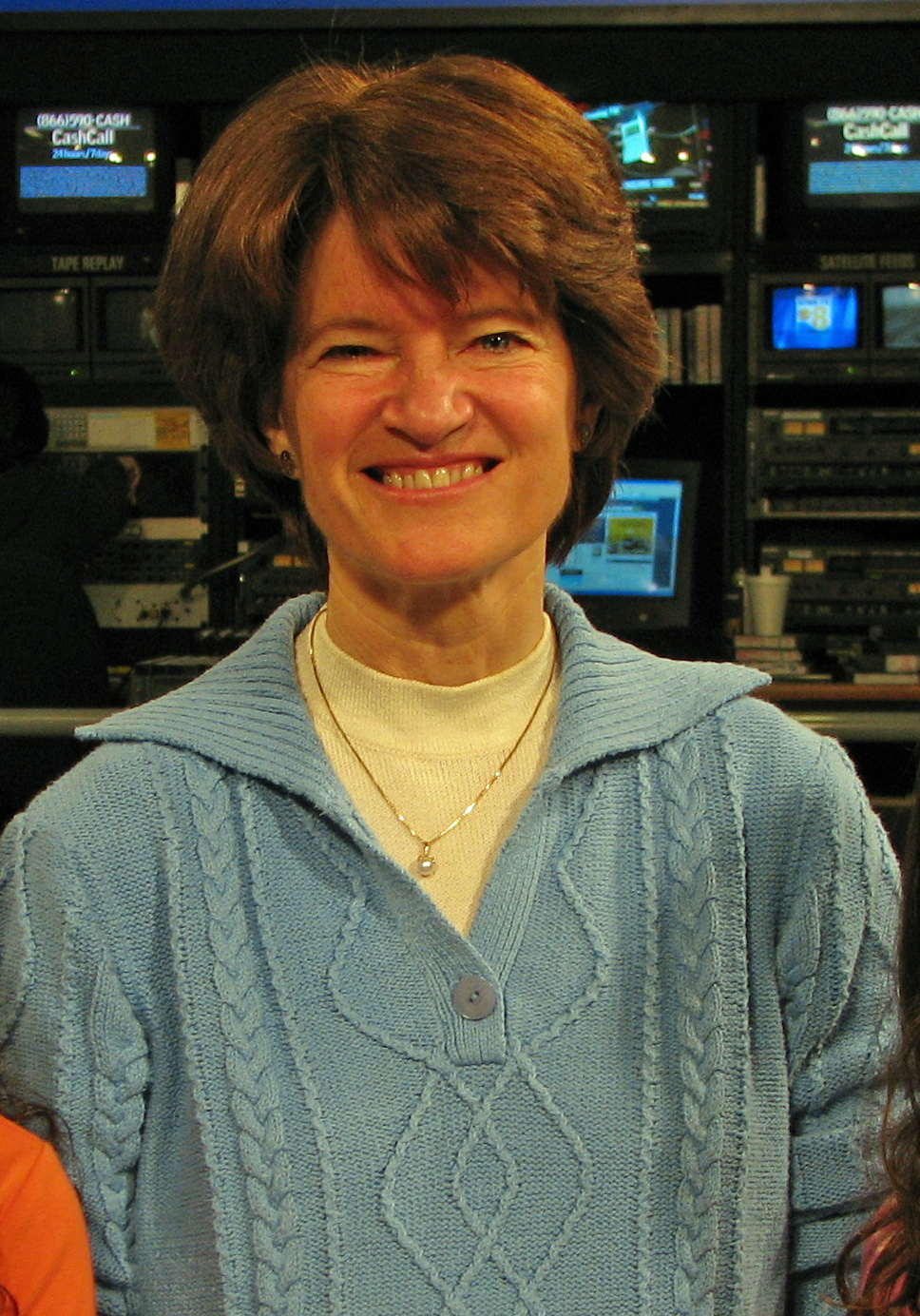 This is a photo of former astronaut Sally Ride taken in February 2006 in San Diego by Phil Konstantin.